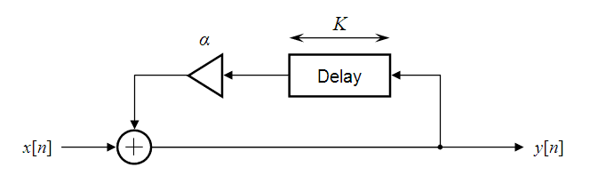 Feedback comb filter structure